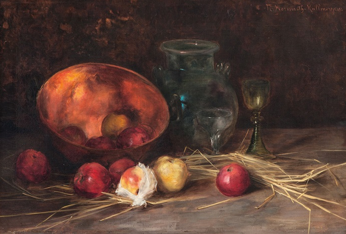 Margarete Hormuth-Kallmorgen - Stillleben mit Äpfeln